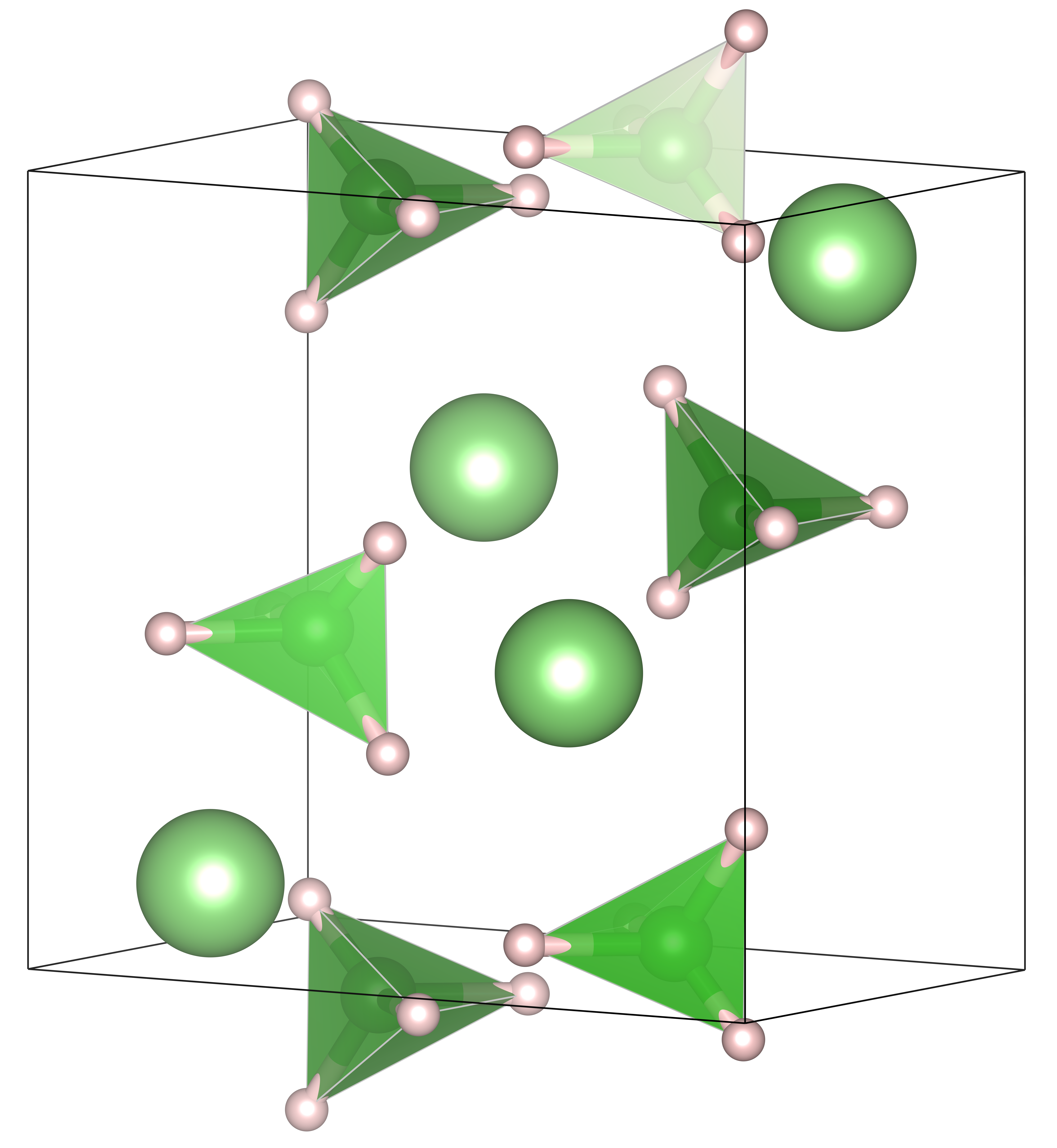 Crystal structure of lithium borohydride (LiBH4) at room temperature. Created with VESTA. Source of crystal structure: J-Ph. Soulie, G. Renaudin, R. Cerny, K. Yvon (November 2002). Journal of Alloys and Compounds 346 (1–2): 200–205. According to the paper the structure is a orthorhombic distorted wurtzite type.